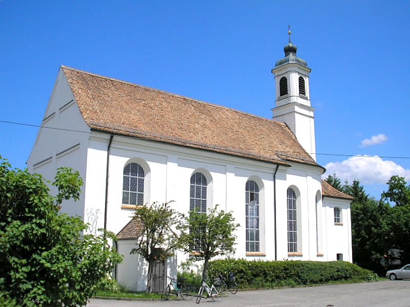 Pilgrimage church Maria Aich (Peissenberg, Landkreis Weilheim-Schongau, Upper Bavaria, Germany). Total view from the south